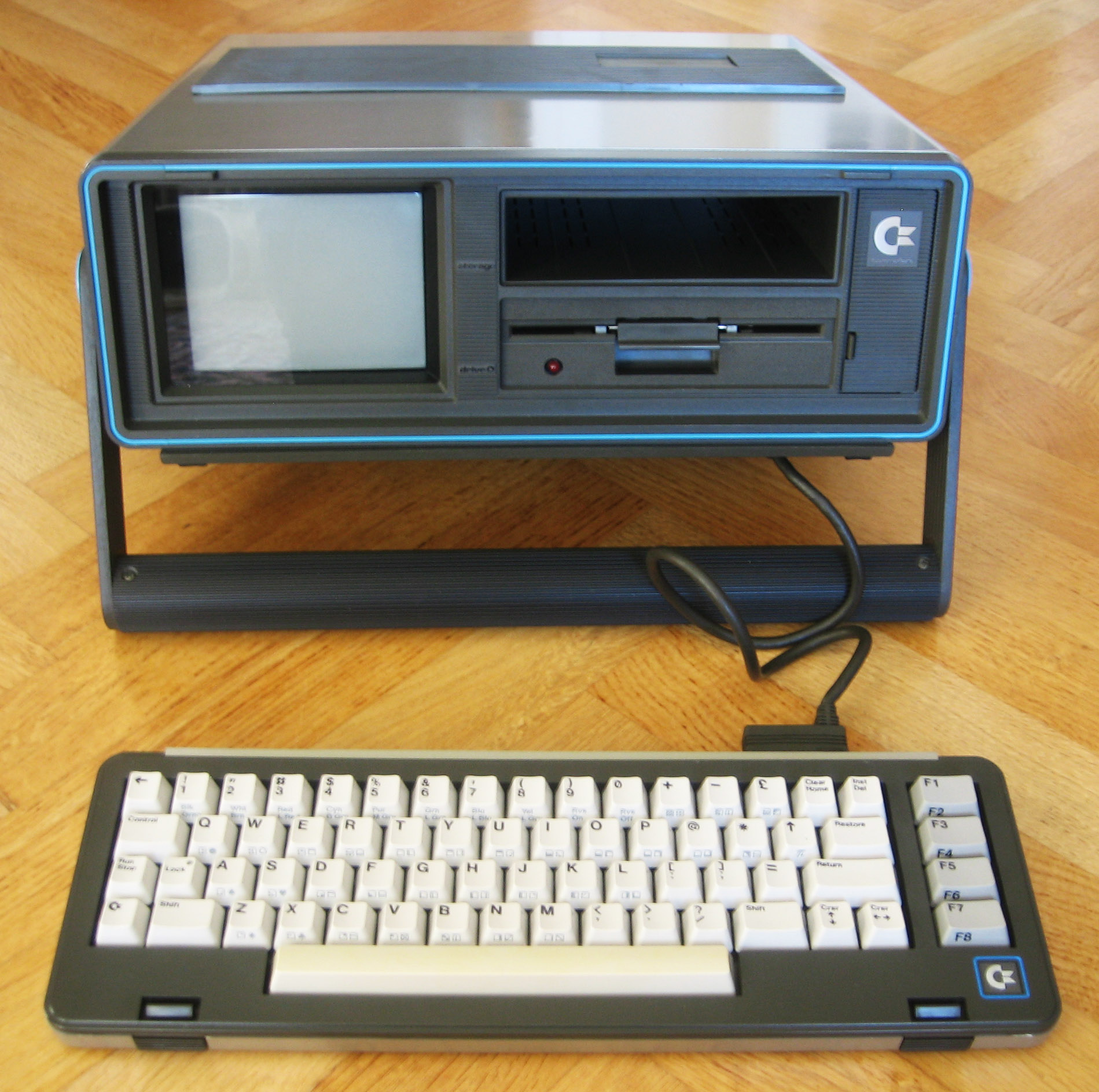 Commodore SX-64, front.